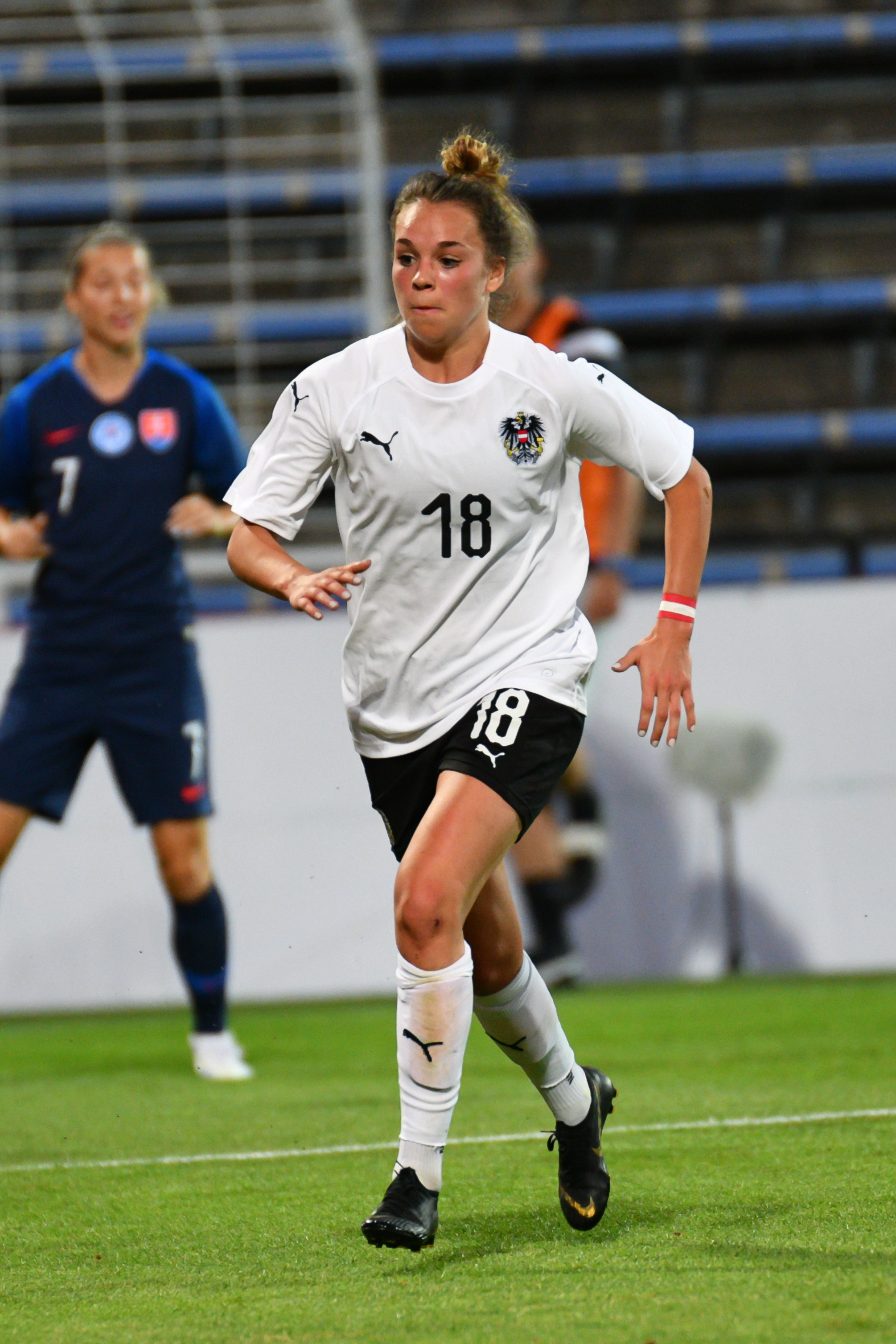 ÖFB International Friendly Match Women Austria vs. Slovakia 2019-06-17. Picture shows: Julia Hickelsberger-Füller (AUT).